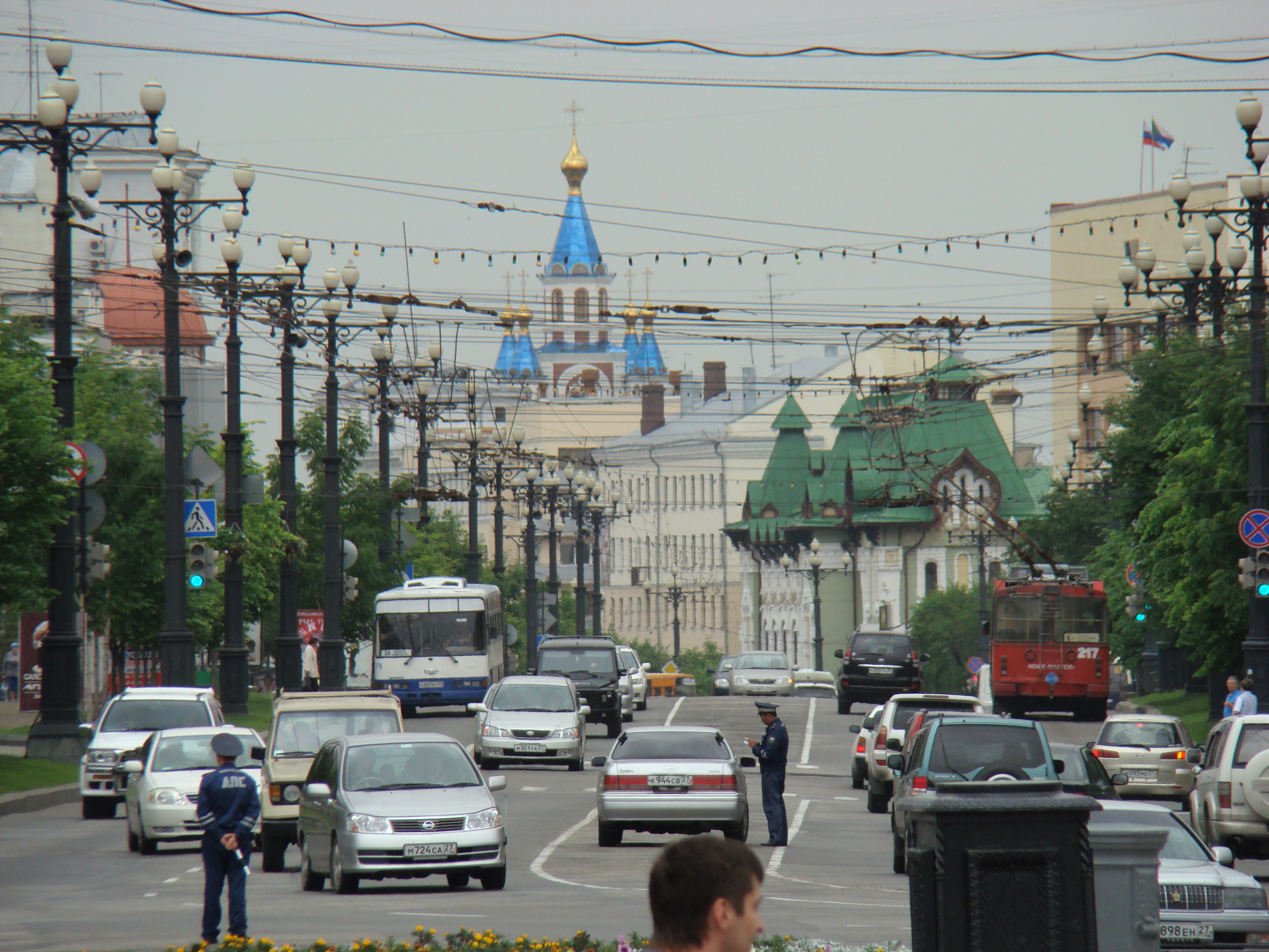 View from Lenin sq to Muravyov-Amursky Street in Khabarovsk.